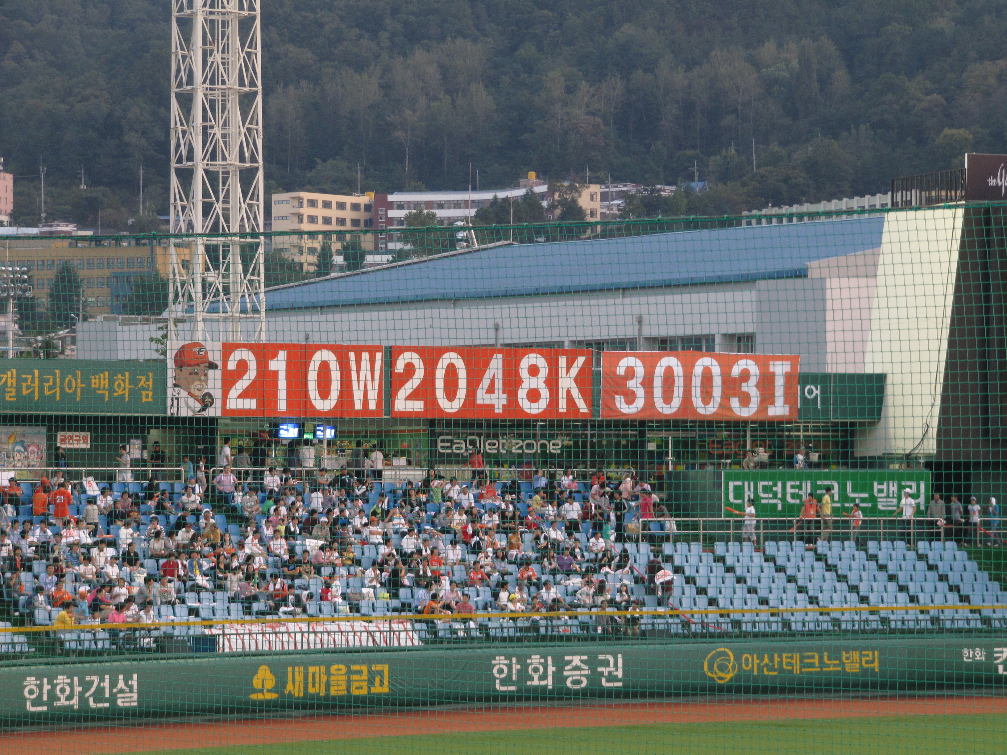 Boards of Song Jin-Woo's Total Records at Daejeon Hanbat Ballpark